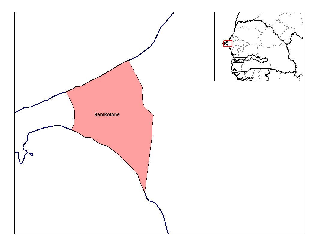 Map of the only arrondissement of Rufisque department in Senegal.